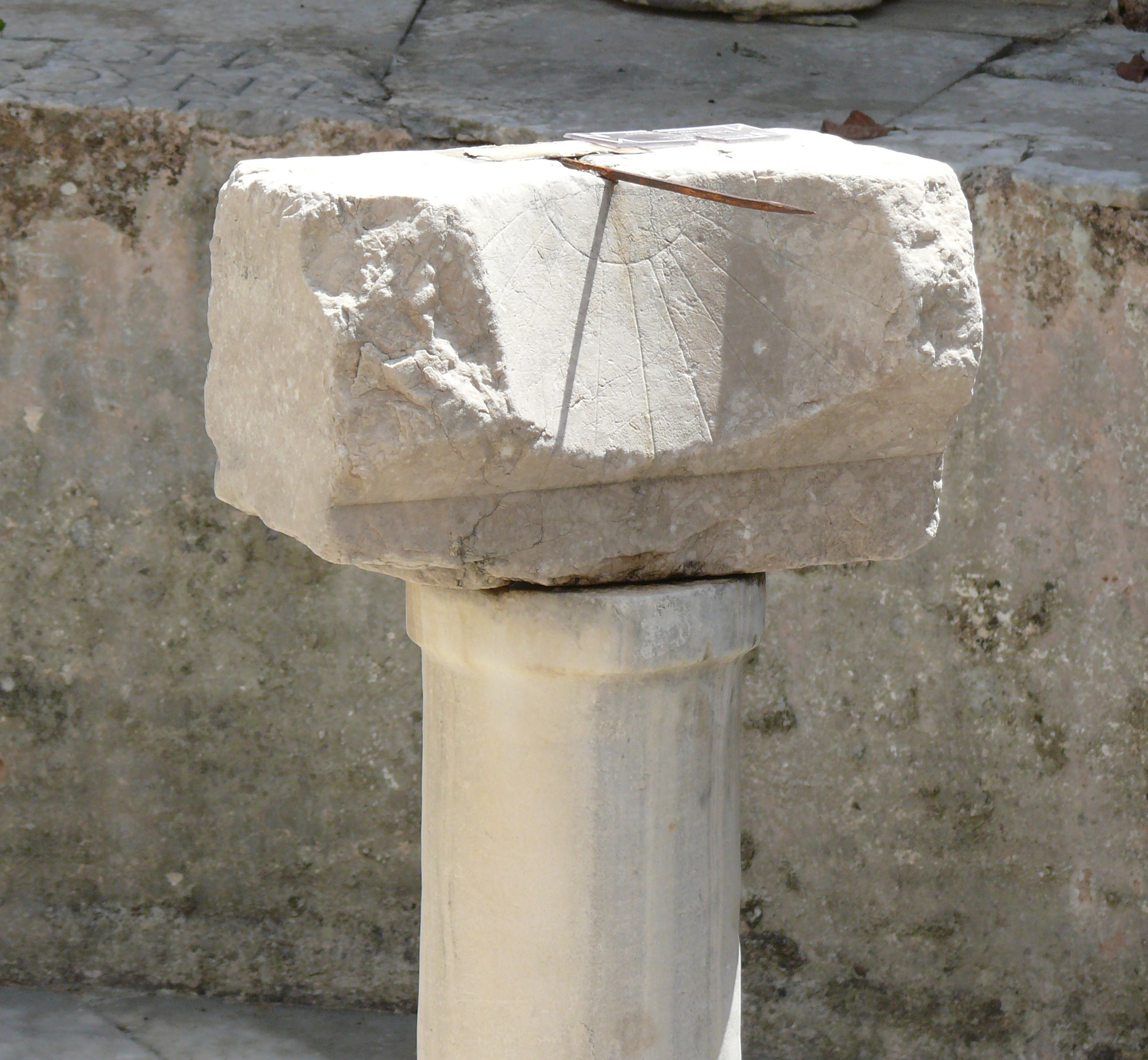 Roman hemispherical sundial in the Side Archaeological Museum (Side, Turkey).